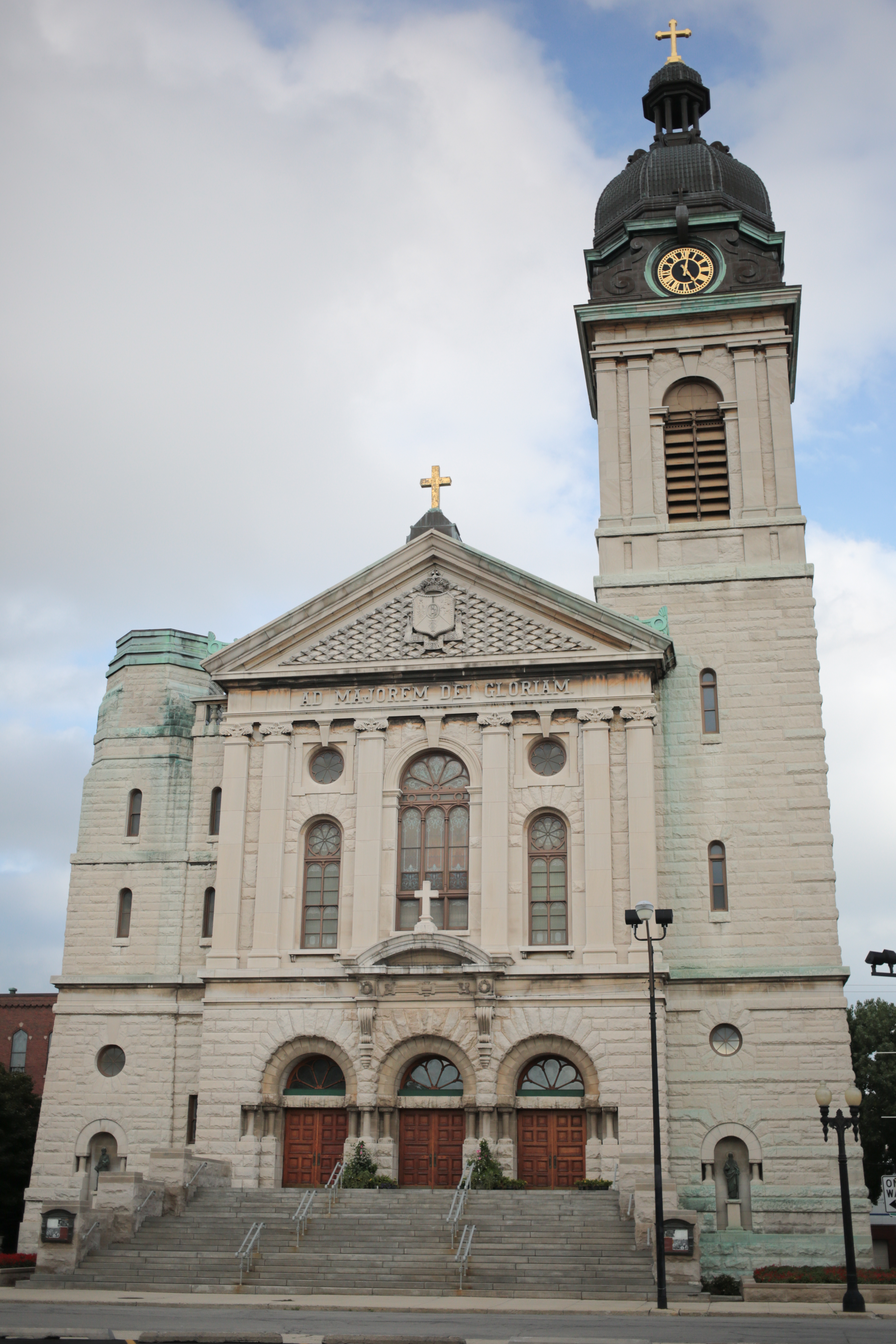 St. John Cantius Chicago - Photo Walk Chicago September 2, 2013-4885